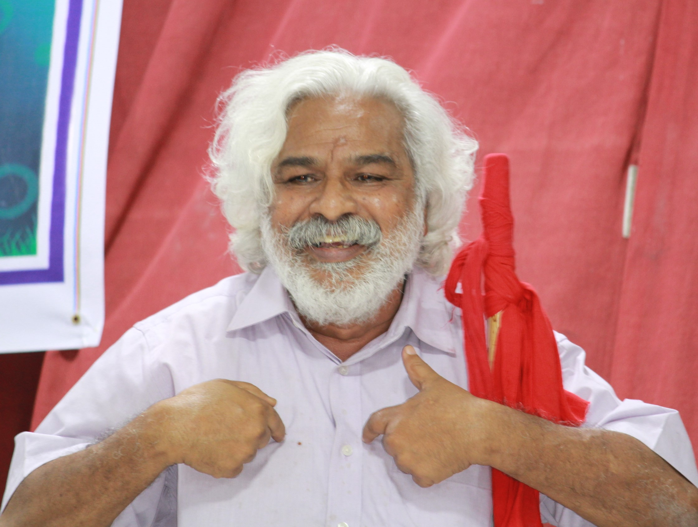 Gadhar, Socail Activist